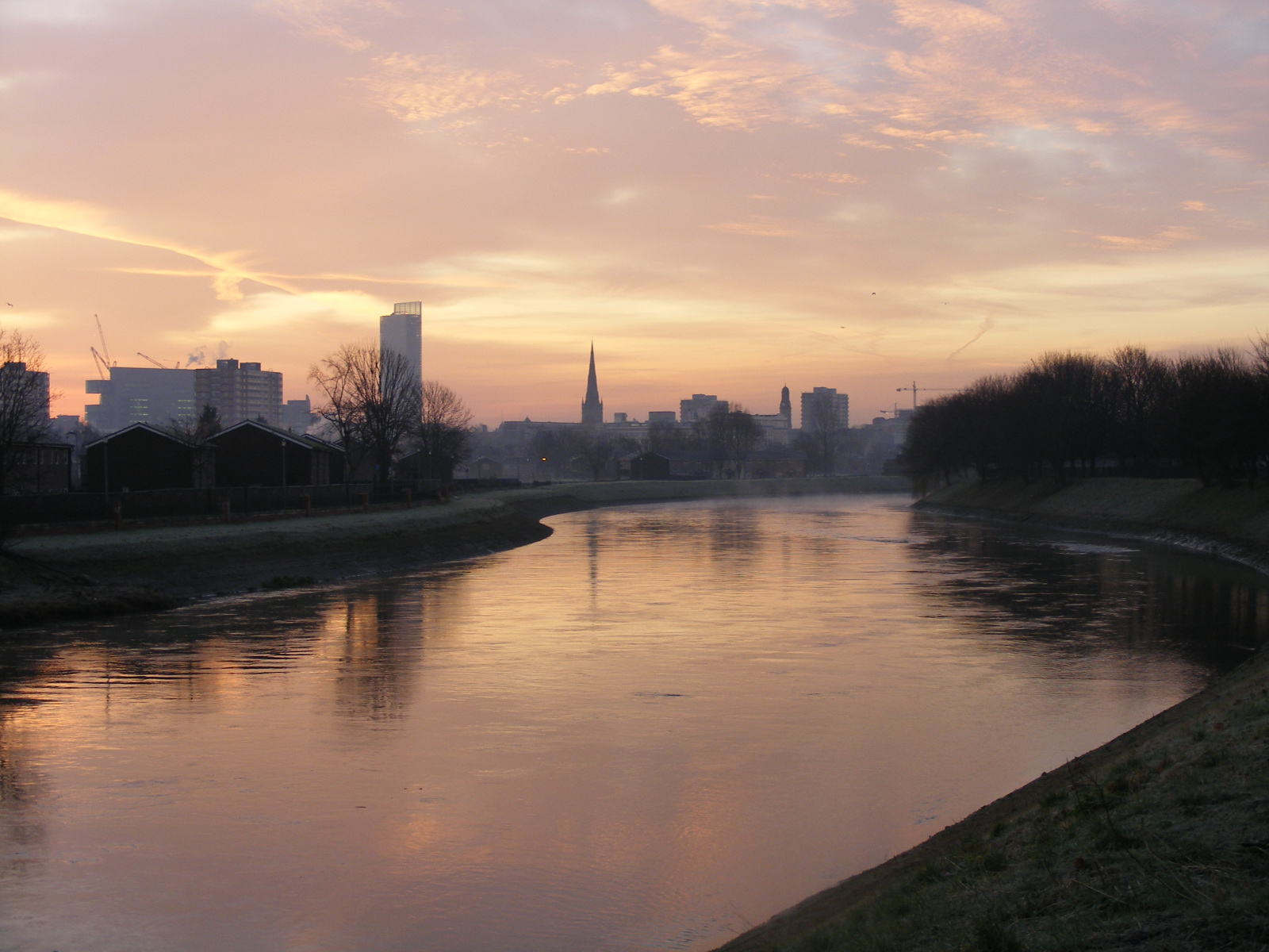 The River Irwell at Salford, looking towards Manchester City Centre, North West England